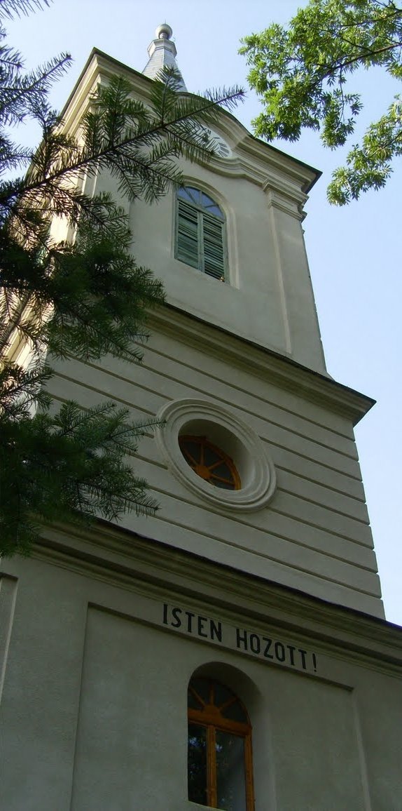 Temple of Vălenii de Mureș